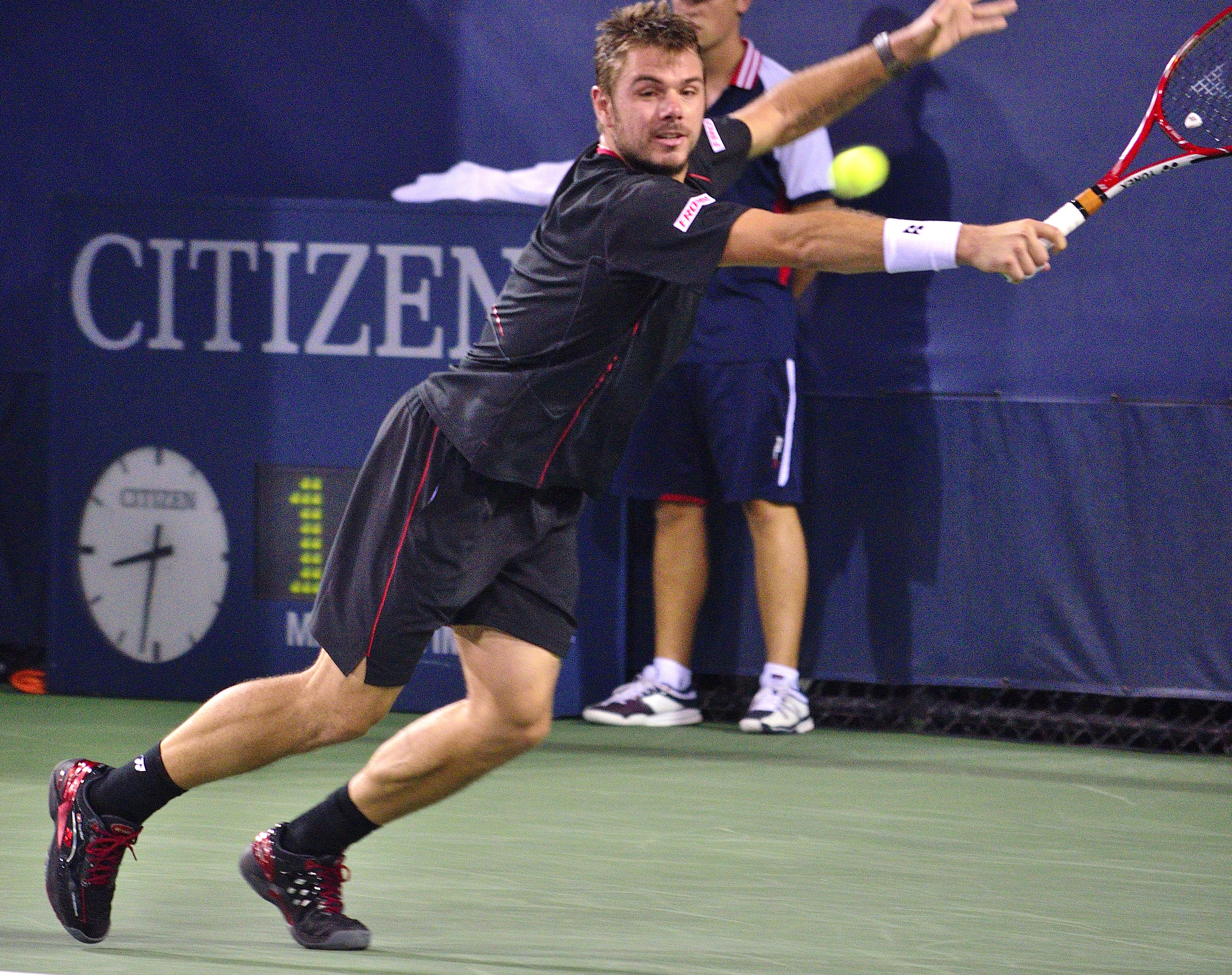 Queens, NY August 30, 2013 Stanislas Wawrinka (SUI) def. Ivo Karlovic (CRO) Court 11